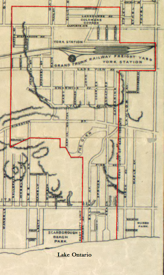 map of East Toronto - 1908 Plan of the City of Toronto